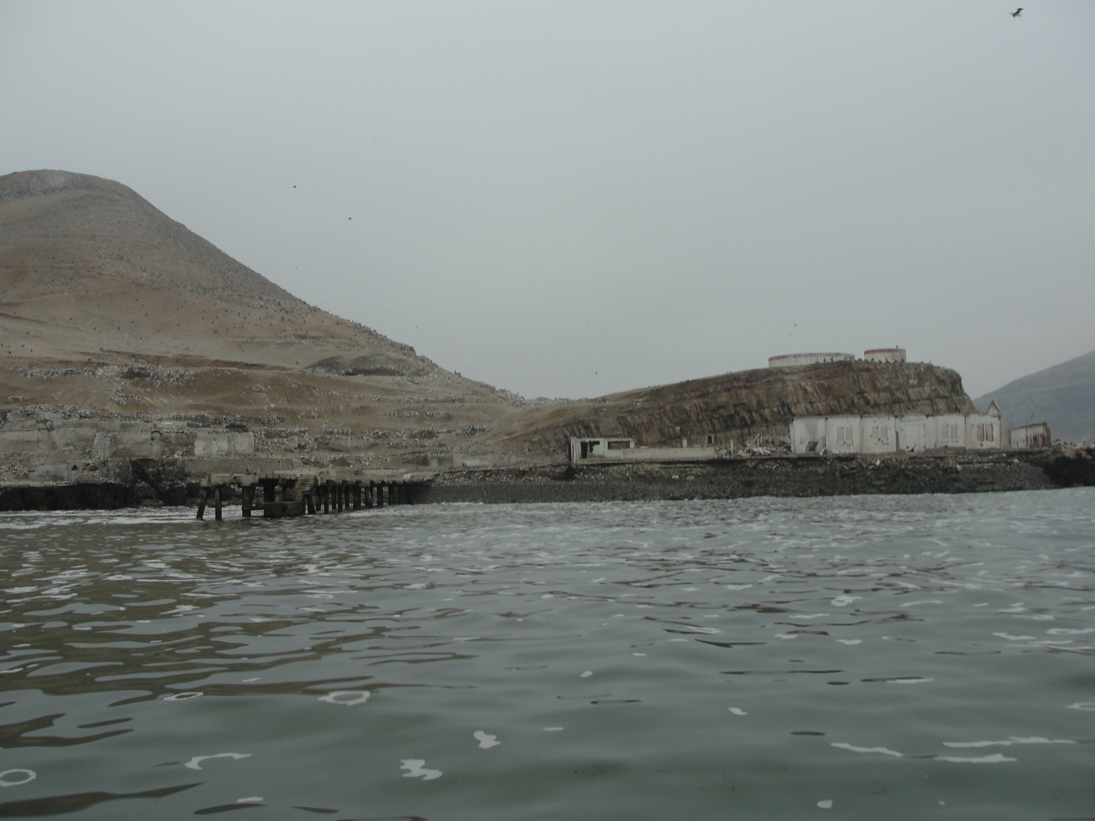 Photo taken of El Frontón, former Peruvian prison camp off the coast of Callao. (Taken May 2012)